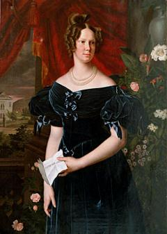 Marie Fredericka of Hesse-Kassel, duchess of Saxe-Meiningen, 1830